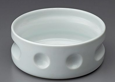 Finger Bowl (back) (1974), Masahiro Mori (ceramic designer) designed